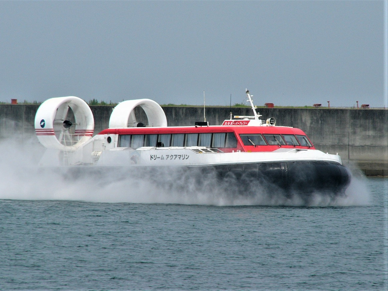 Hovercraft-MVPP10